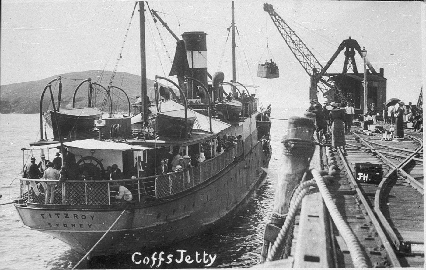 Langley Brothers' steamship Fitzroy Loading at Coffs Harbour, New South Wales